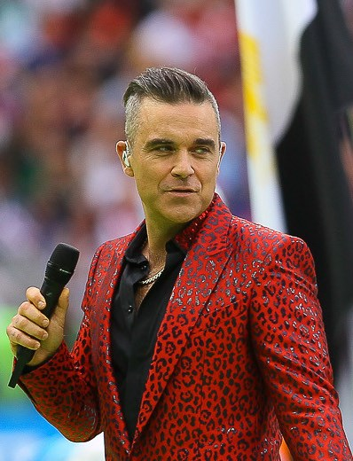 Robbie Williams